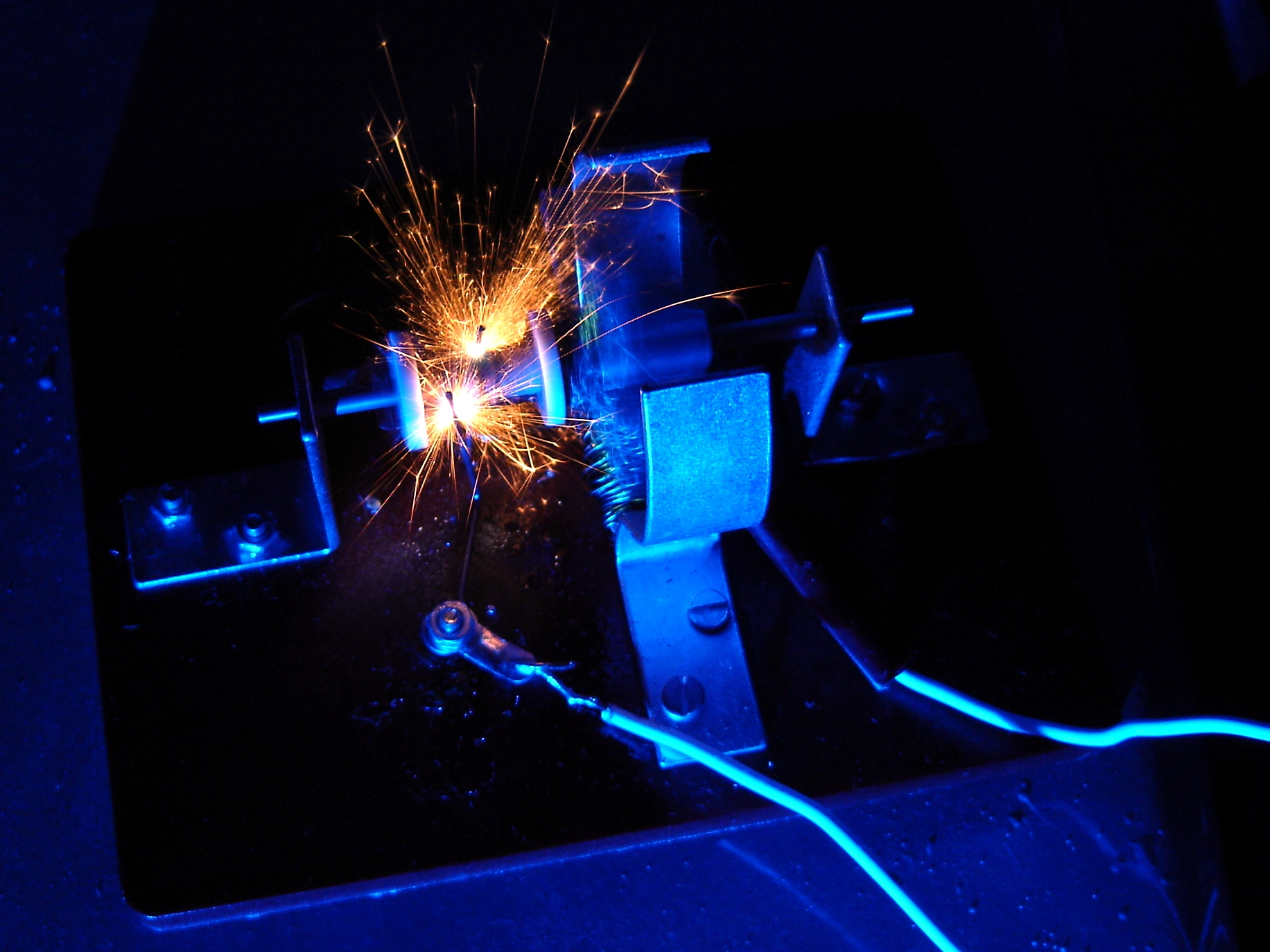 Commutator sparking